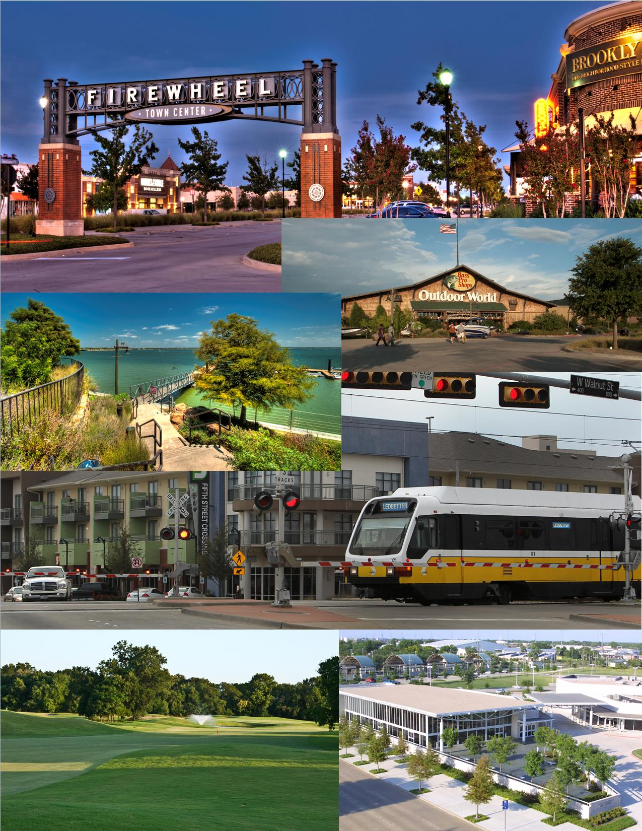 Top to bottom, left to right: Firewheel Town Center, Bass Pro Shops at Harbor Point, Lake Ray Hubbard, Downtown Dart Station, Firewheel Golf Park, and the Granville Arts Center.